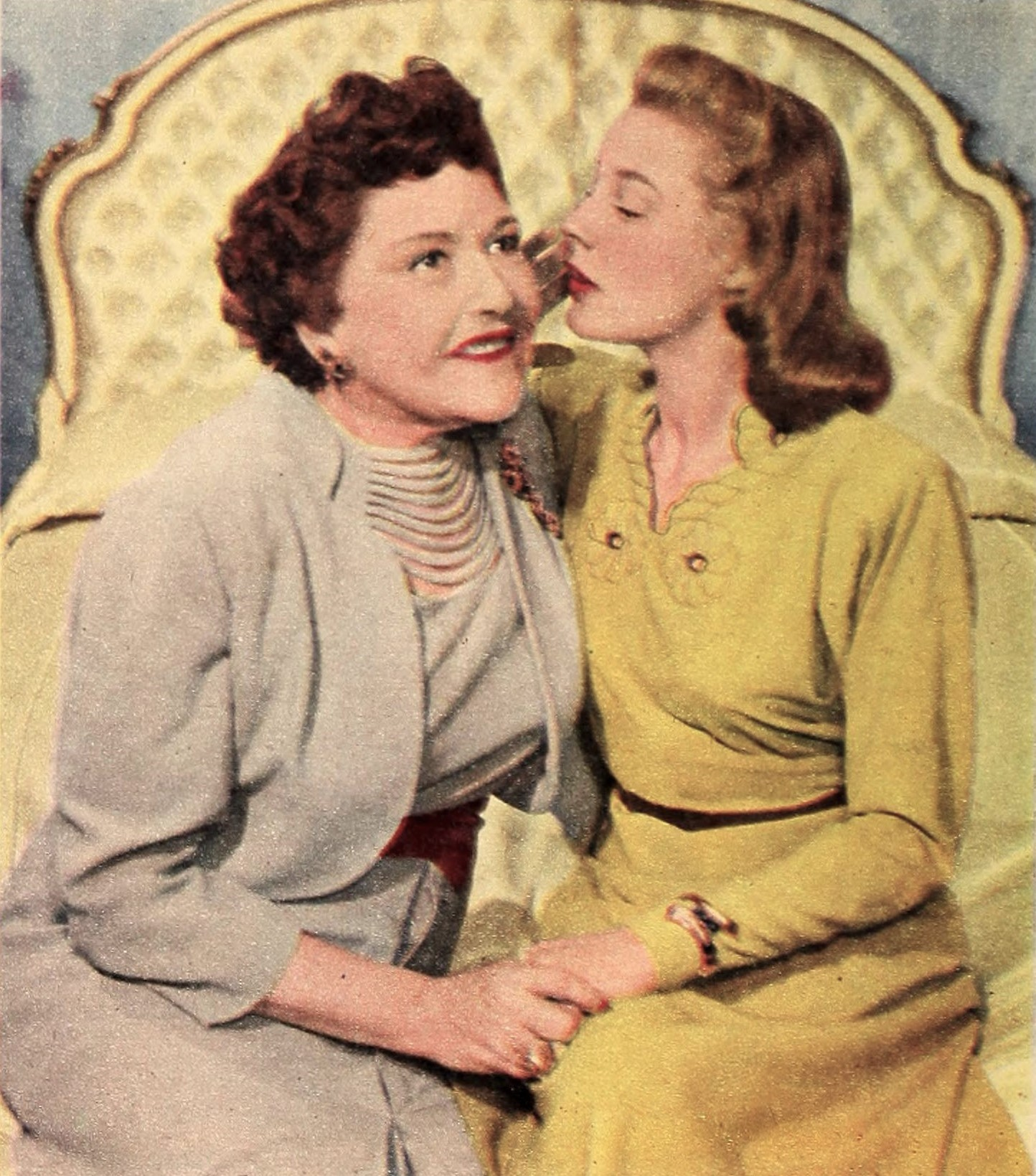 Louella Parsons and June AllysonJune Allyson reveals a secret to Louella (1946)